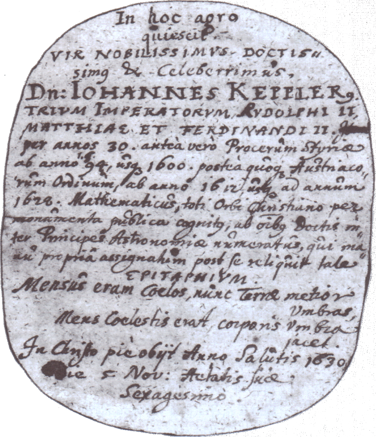 Sketch of Kepler's tombstone.